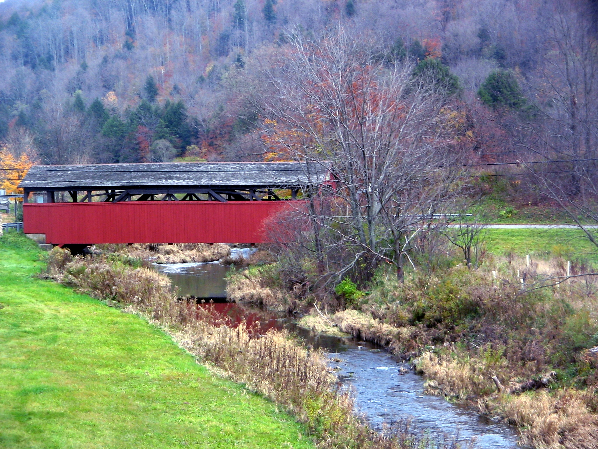 Buttonwood Covered Bridge over Blockhouse Creek in the village of Buttonwood, Jackson Township, Pennsylvania, USA. Bridge built either 1878 or 1898, rehabilitated 1998. On the US National Register of Historic Places. View is from US 15 northbound, the marker for resoration and NRHP listing is on stone pillar at left.